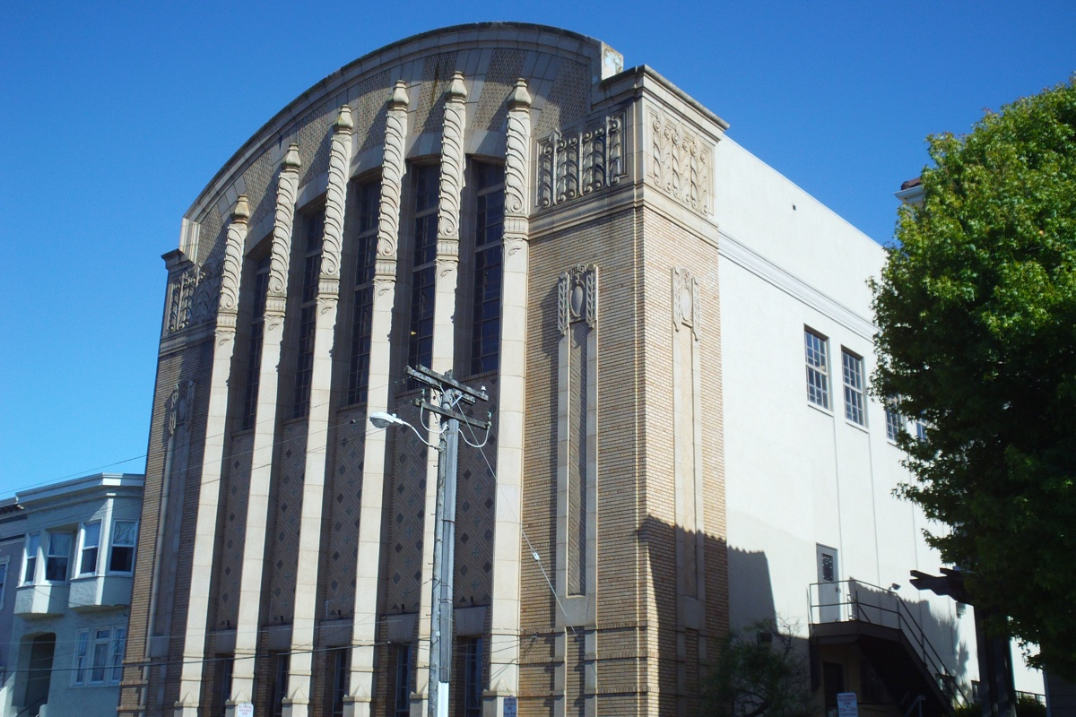 The gymnasium is all that remains from the former San Francisco Polytechnic High School.